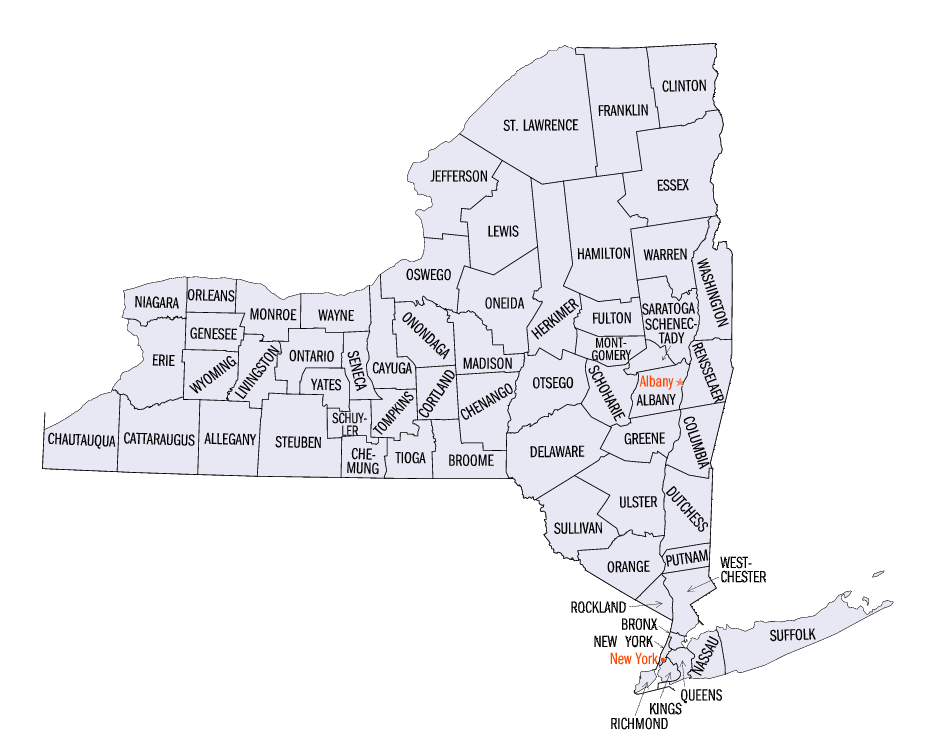 Map of New-York counties.